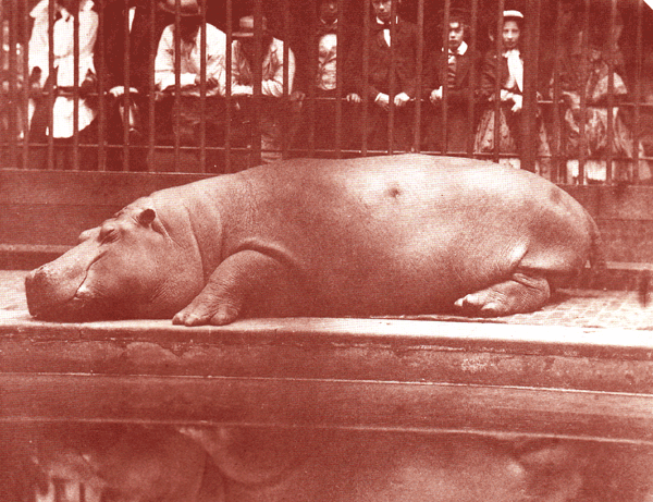 Obaysch, London Zoo's first hippopotamus, 1852. Printed in Edwards J. London Zoo from Old Photographs, 1852-1914, 1996.